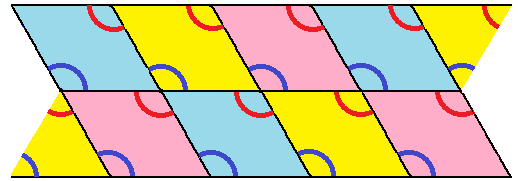 hexaflexagon, 9 faces, single sided printing